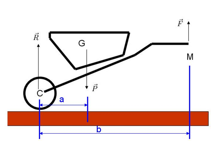 a simple diagram show the force acting on wheelbarrow